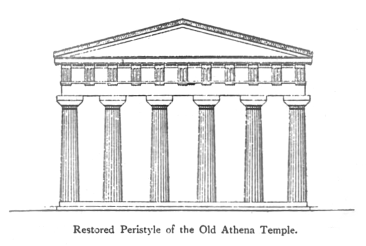 Old Temple of Athena restored